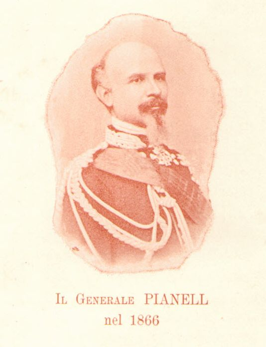 Italian general Giuseppe Salvatore Pianell (1818-1892)